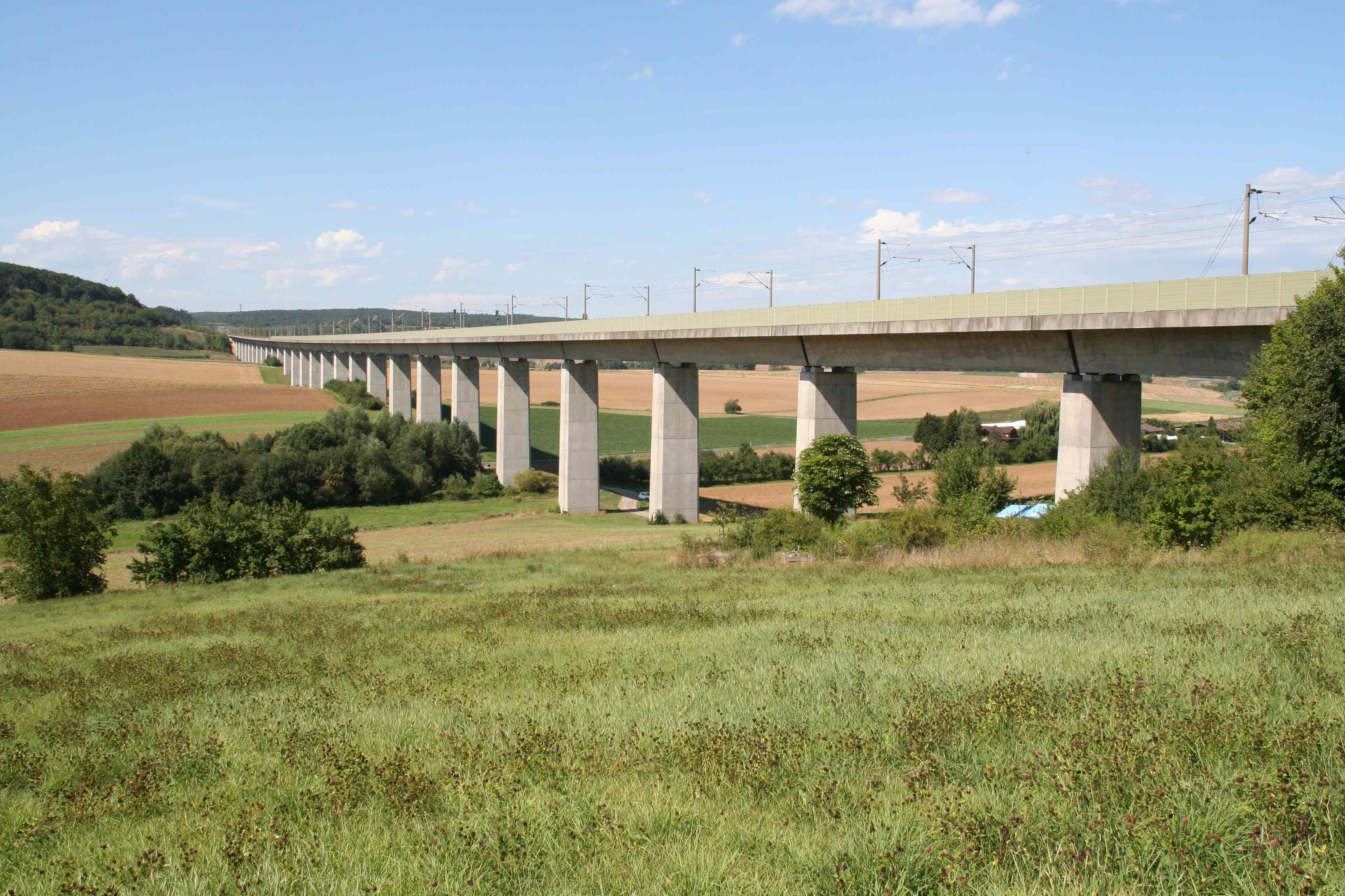 Leinachtal Bridge, located between Zellingen am Main and Leinach